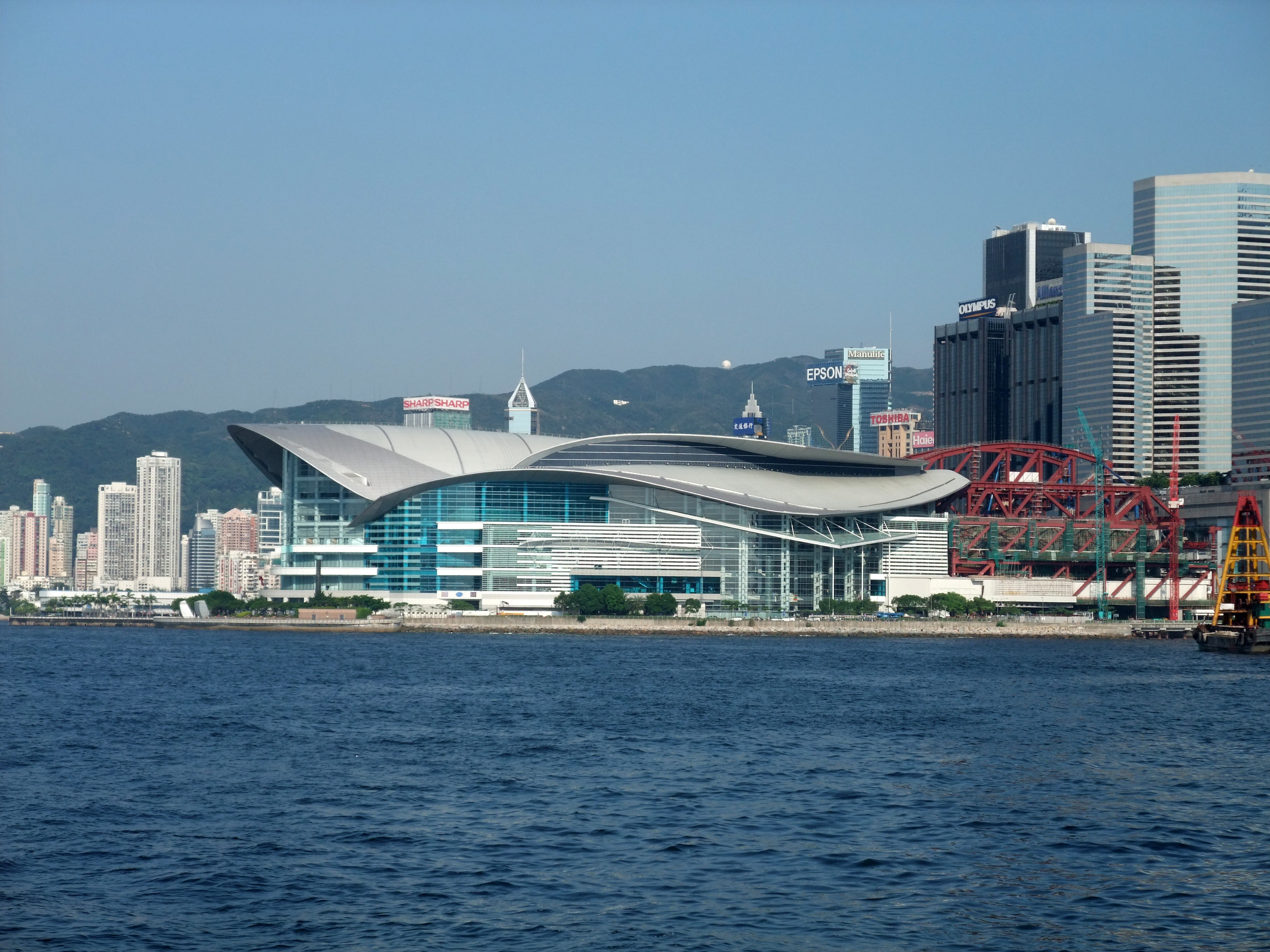 Photo of Hong Kong Convention and Exhibition Centre